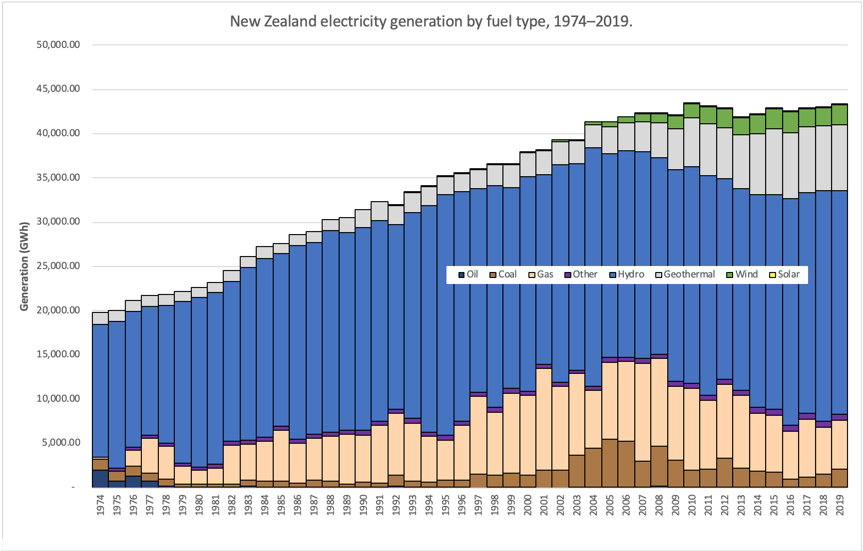 New Zealand electricity generation by fuel type, 1974–2019